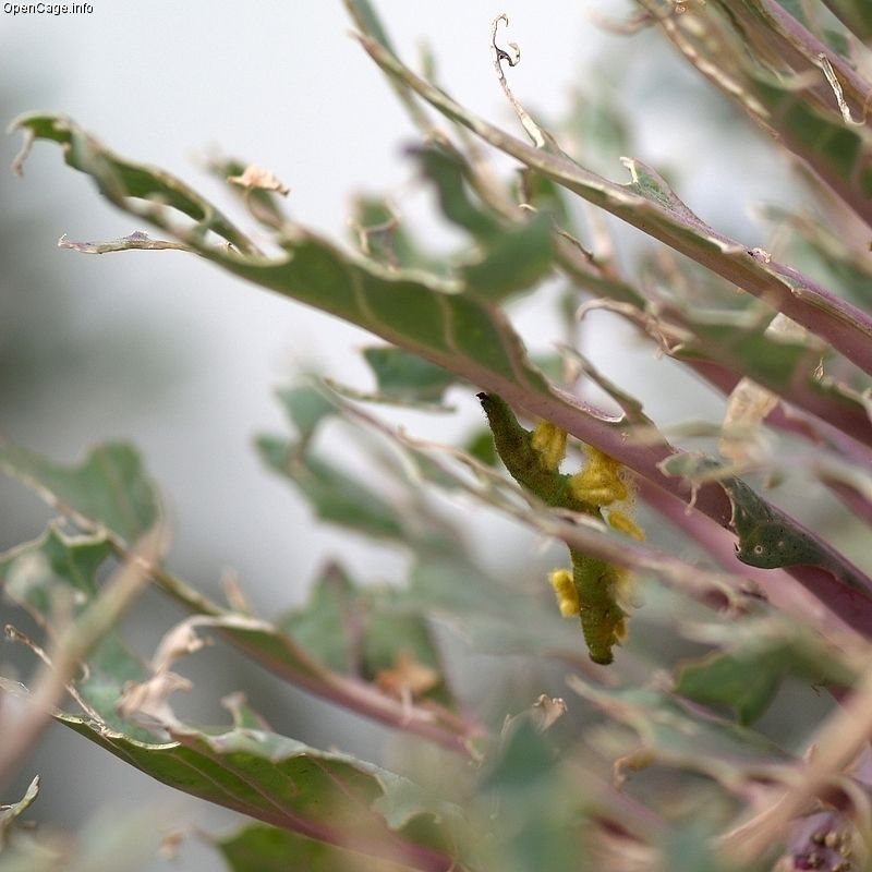 ハチ（アオムシコマユバチ）に寄生されたモンシロチョウの幼虫 The larva of a small white butterfly on which were parasitic.